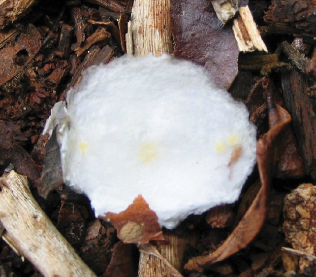 Selenops wilmotorum egg sac